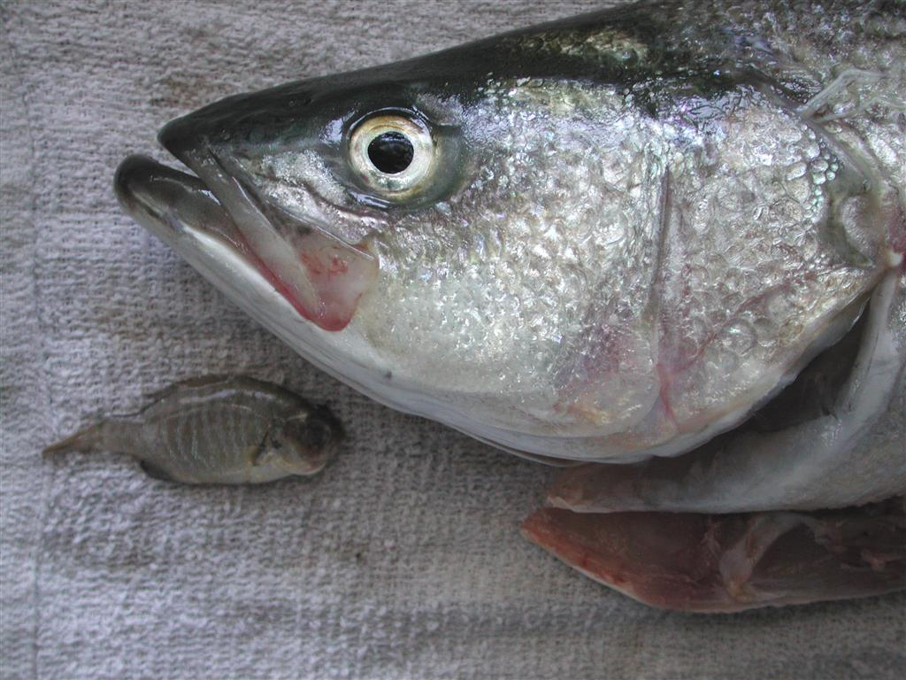 A small barred perch recovered from the stomach of a striped bass offers clue of its diet.